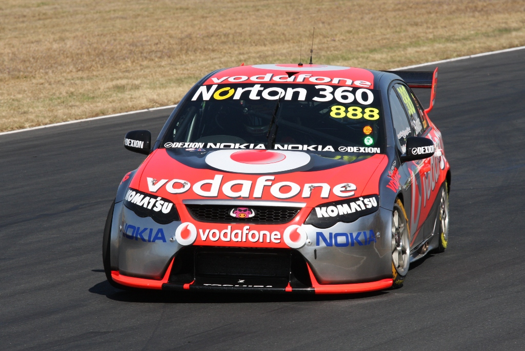 The Ford Falcon of Craig Lowndes at Qld Raceway 23rd August 2009. Warm up for the main race.